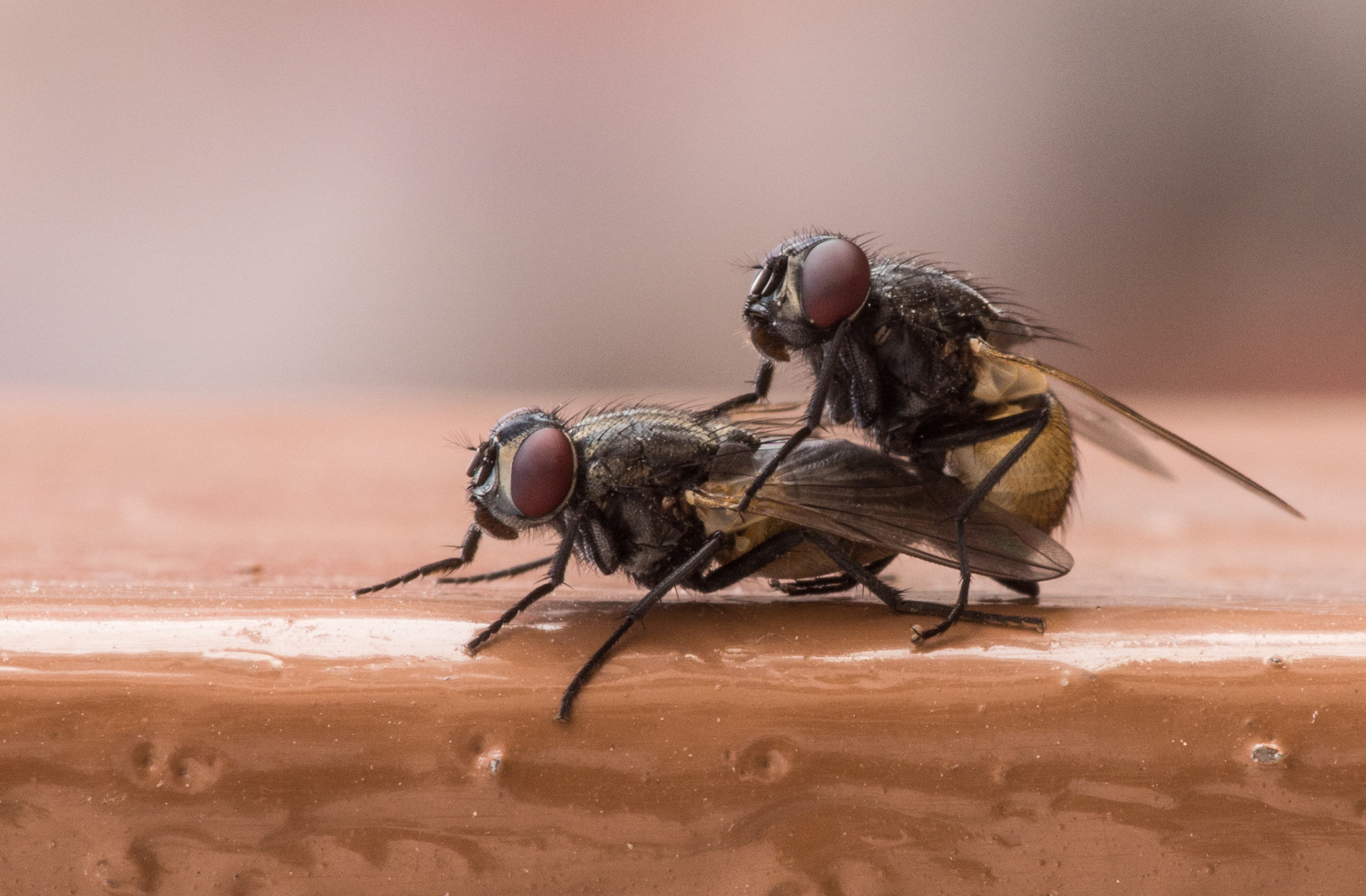 Musca domestica during copulation